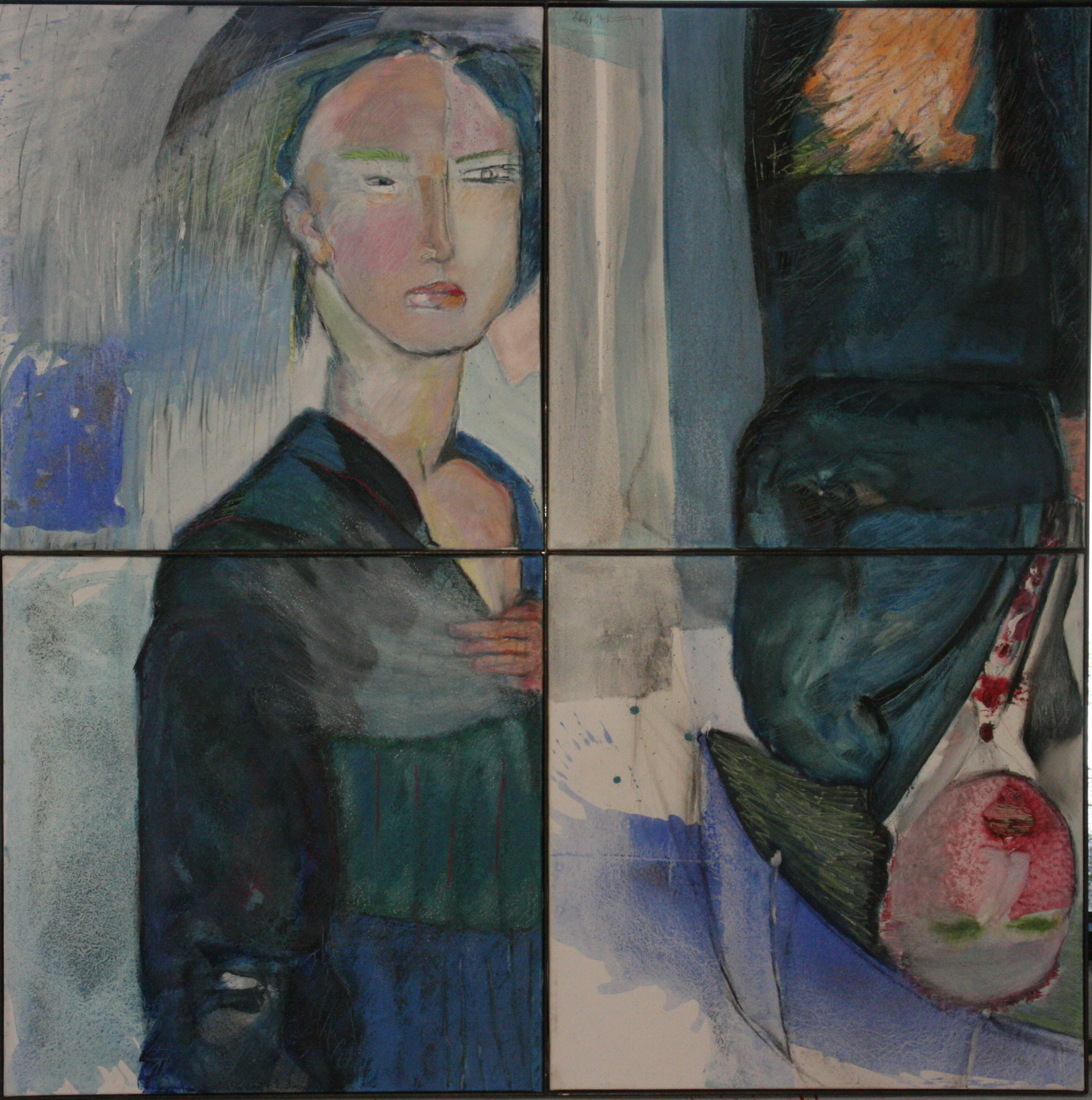 The Couple, Inside-out and Upside-down :ModulArt painting by Leda Luss Luyken